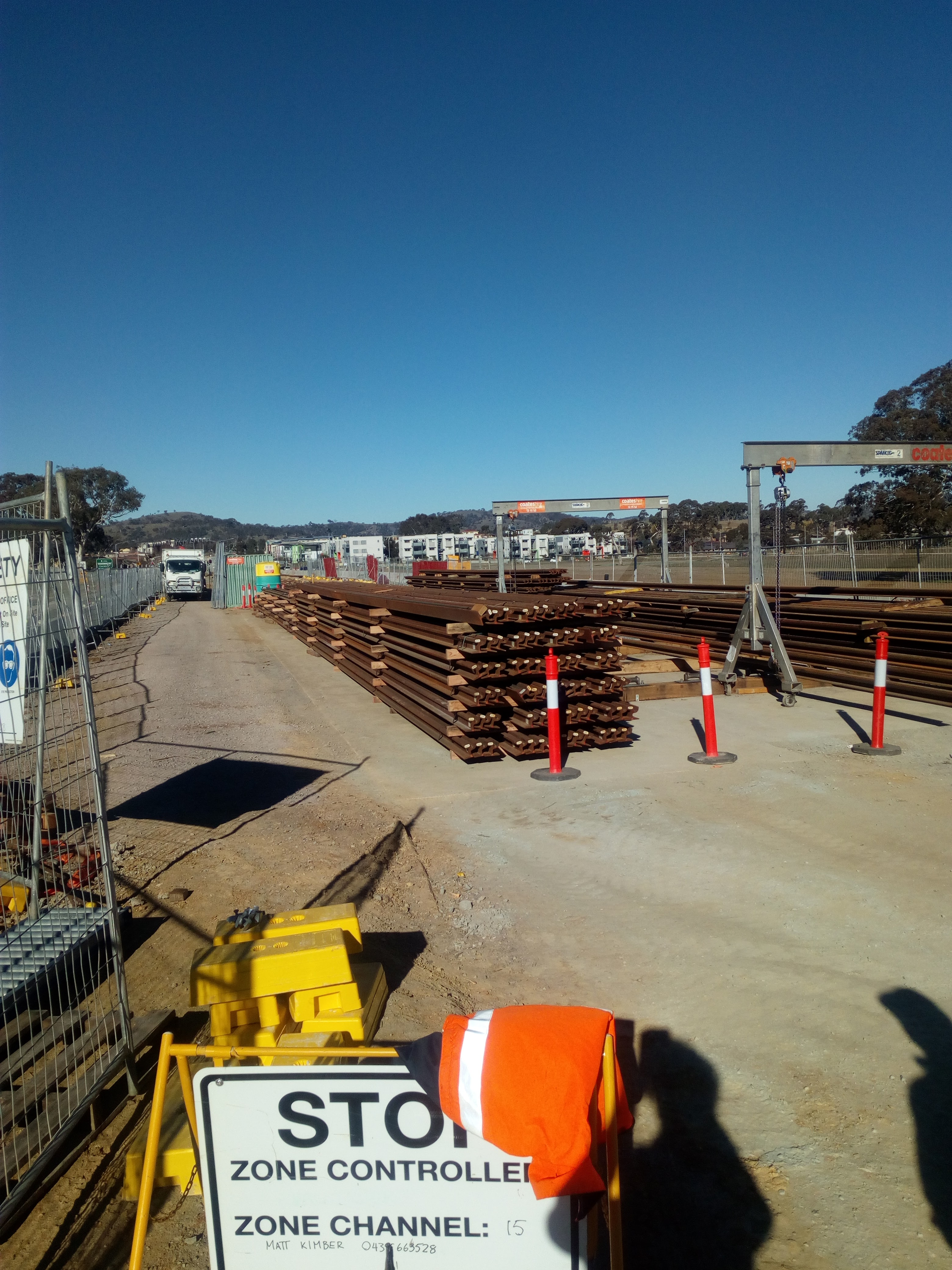 Stacked track for Canberra Light Rail, Gungahlin